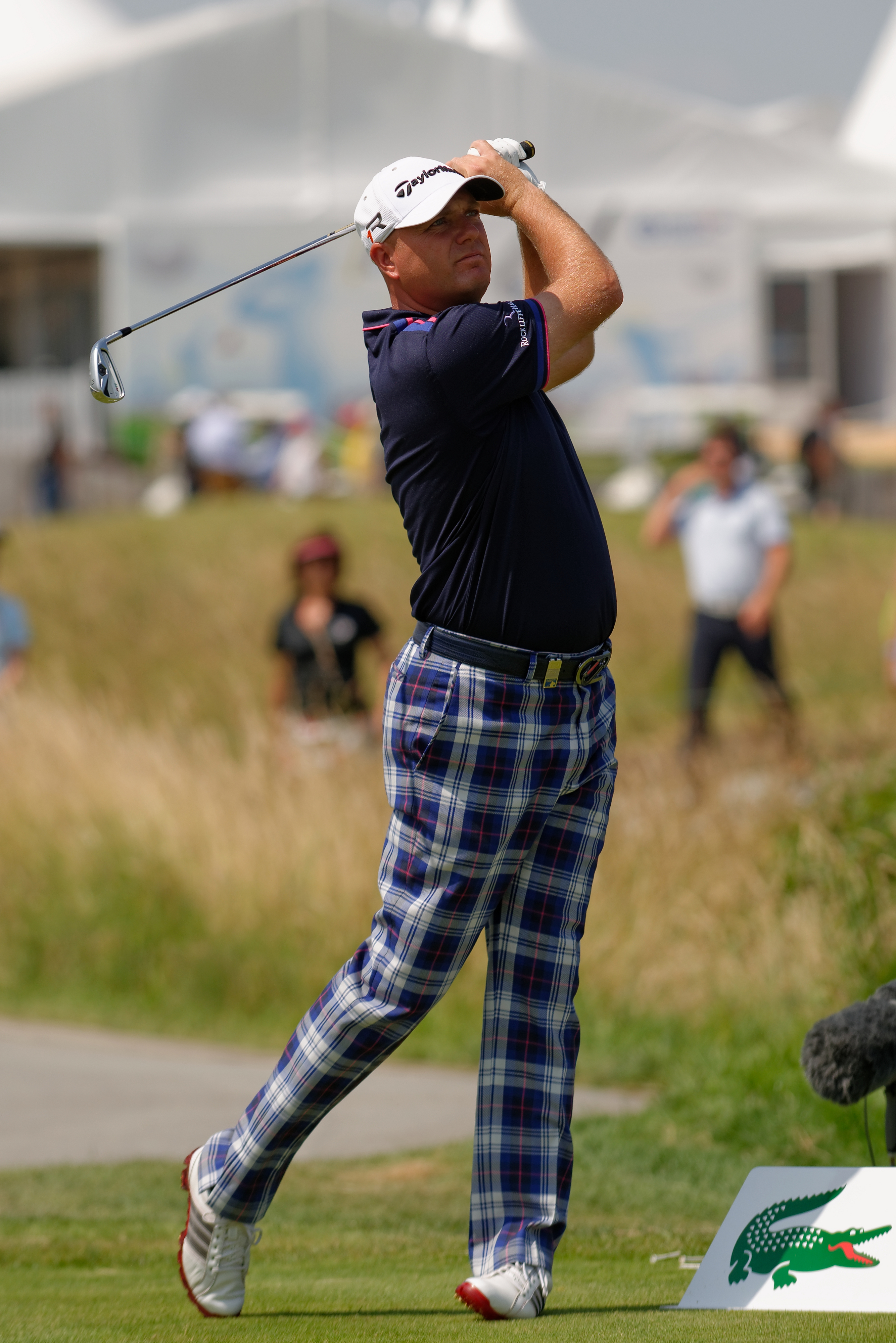 England's Graeme Storm tees off at the 10th hole during the last round of the French Golf Open at the Golf National in Saint Quentin en Yvelines, Sunday July 7th 2013.